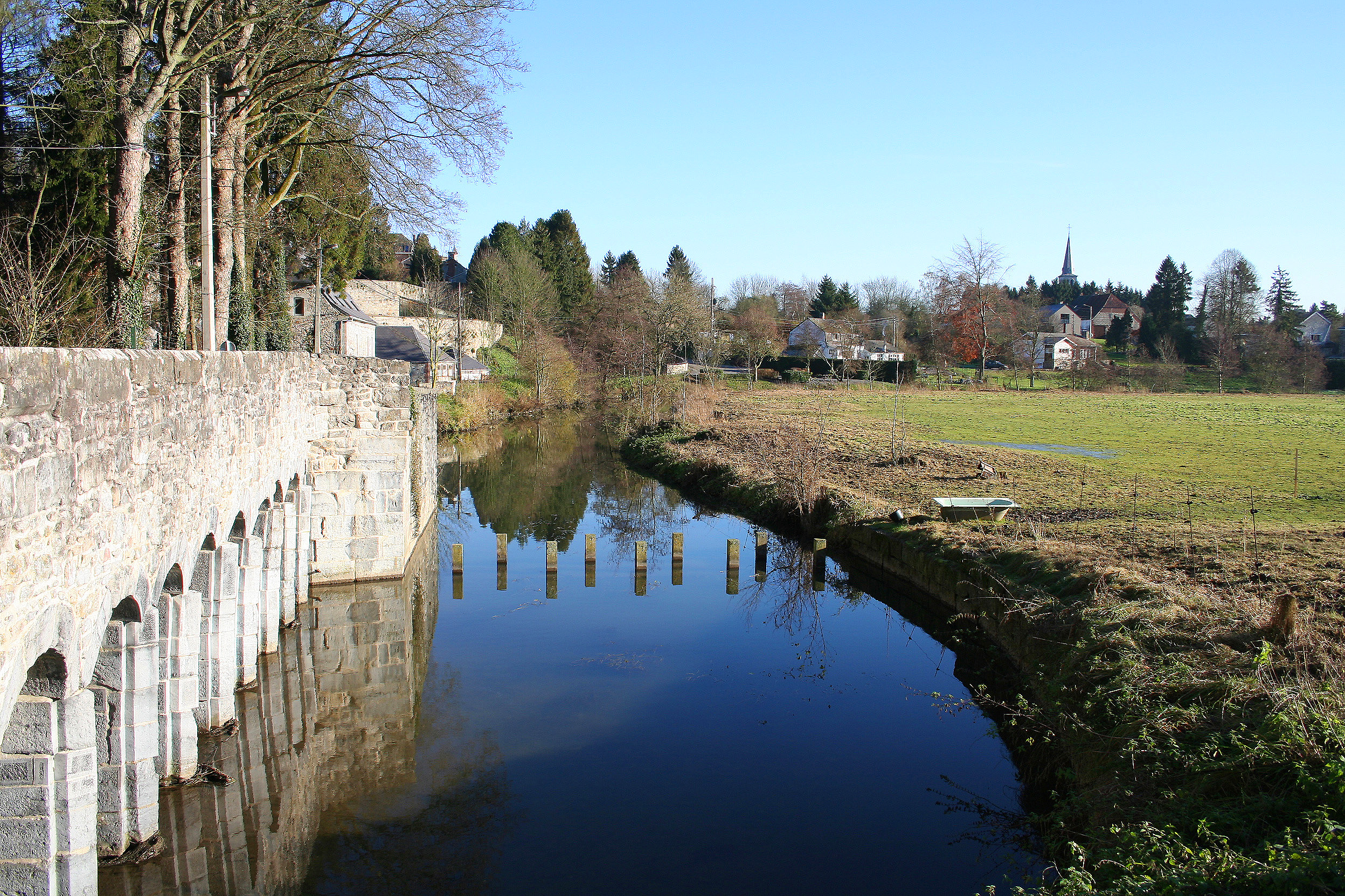 Montignies-Saint-Christophe (Belgium), the Hantes river and the bridge qualified as roman.